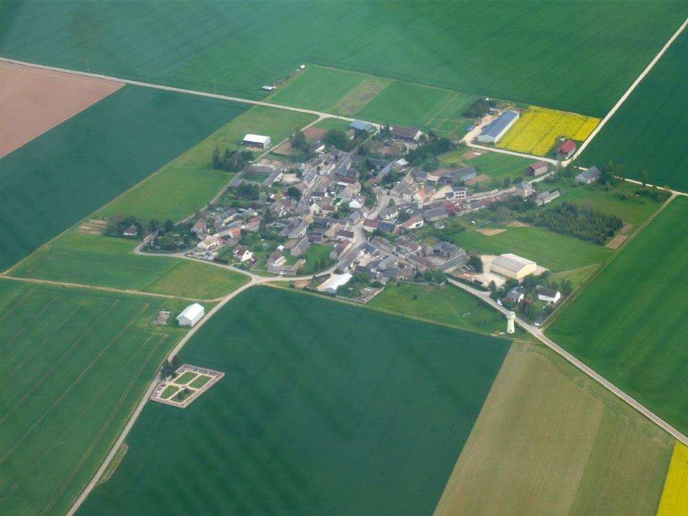 Pannecières as viewed from an airplane.